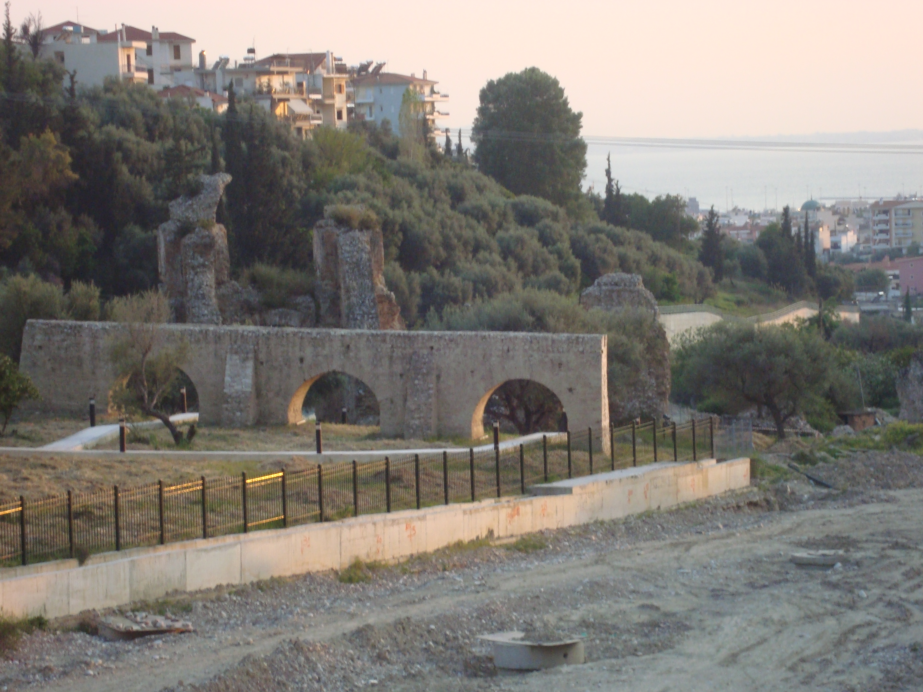 Roman and Medieval Aqueduct of Patras